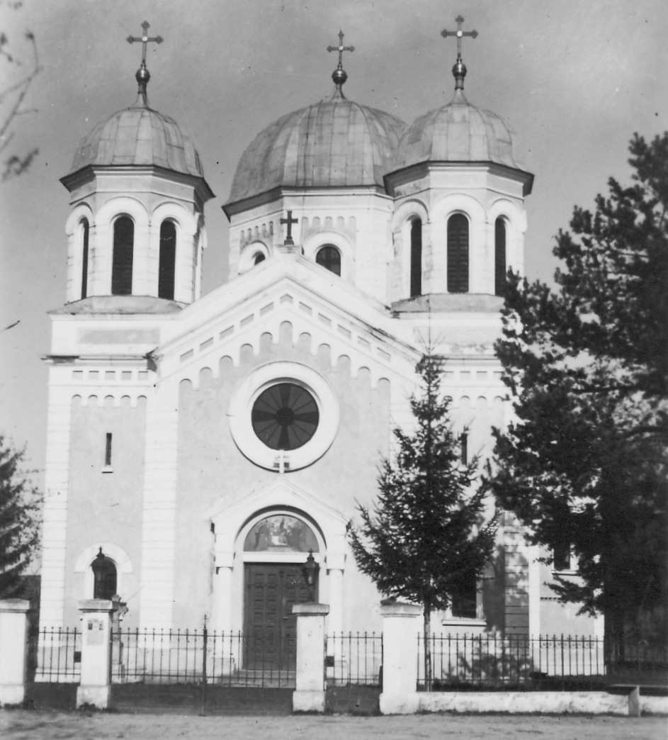 Church in Pătrăuţii de Jos, Storojineţ, Ukraine (image from the archive of the Metropolitan of Moldavia, 1936, free of copyright)